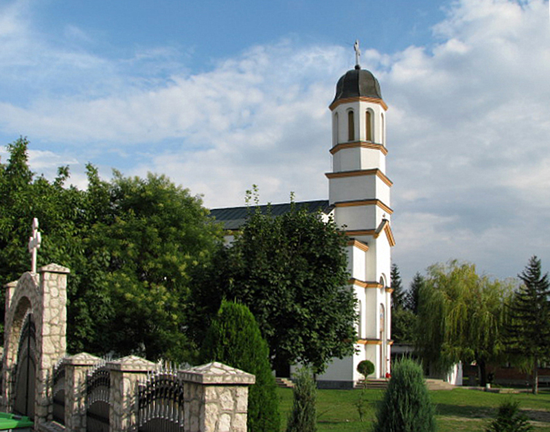 Church of St Sava, Zatonje, Serbia